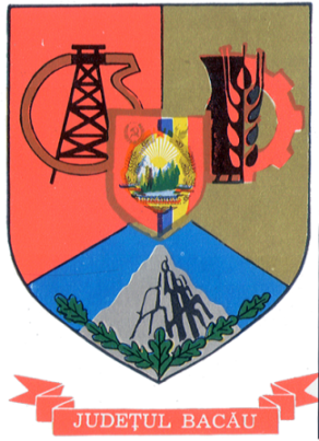 Communist coat of arms of Bacău County, Socialist Republic of Romania.